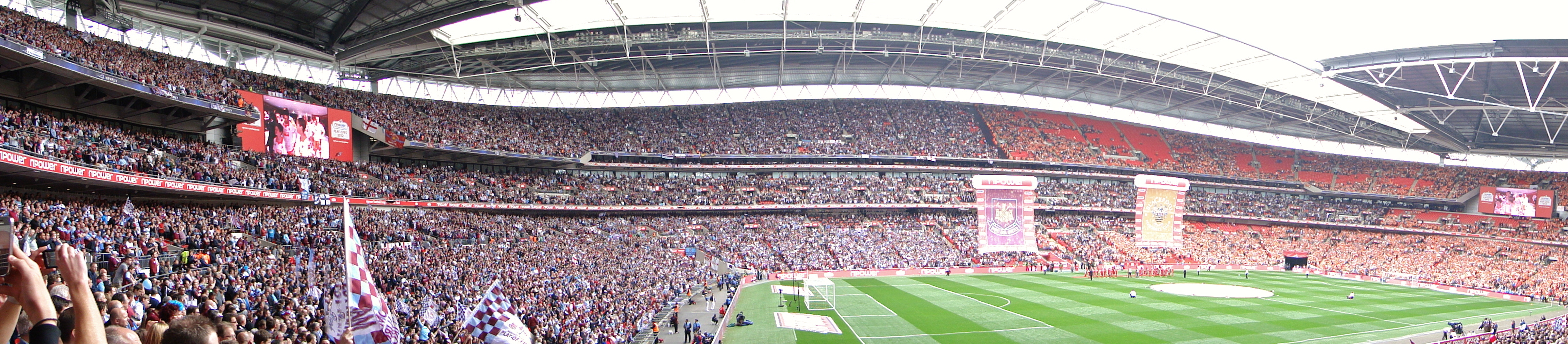 Wembley before the 2012 Championship play-off final